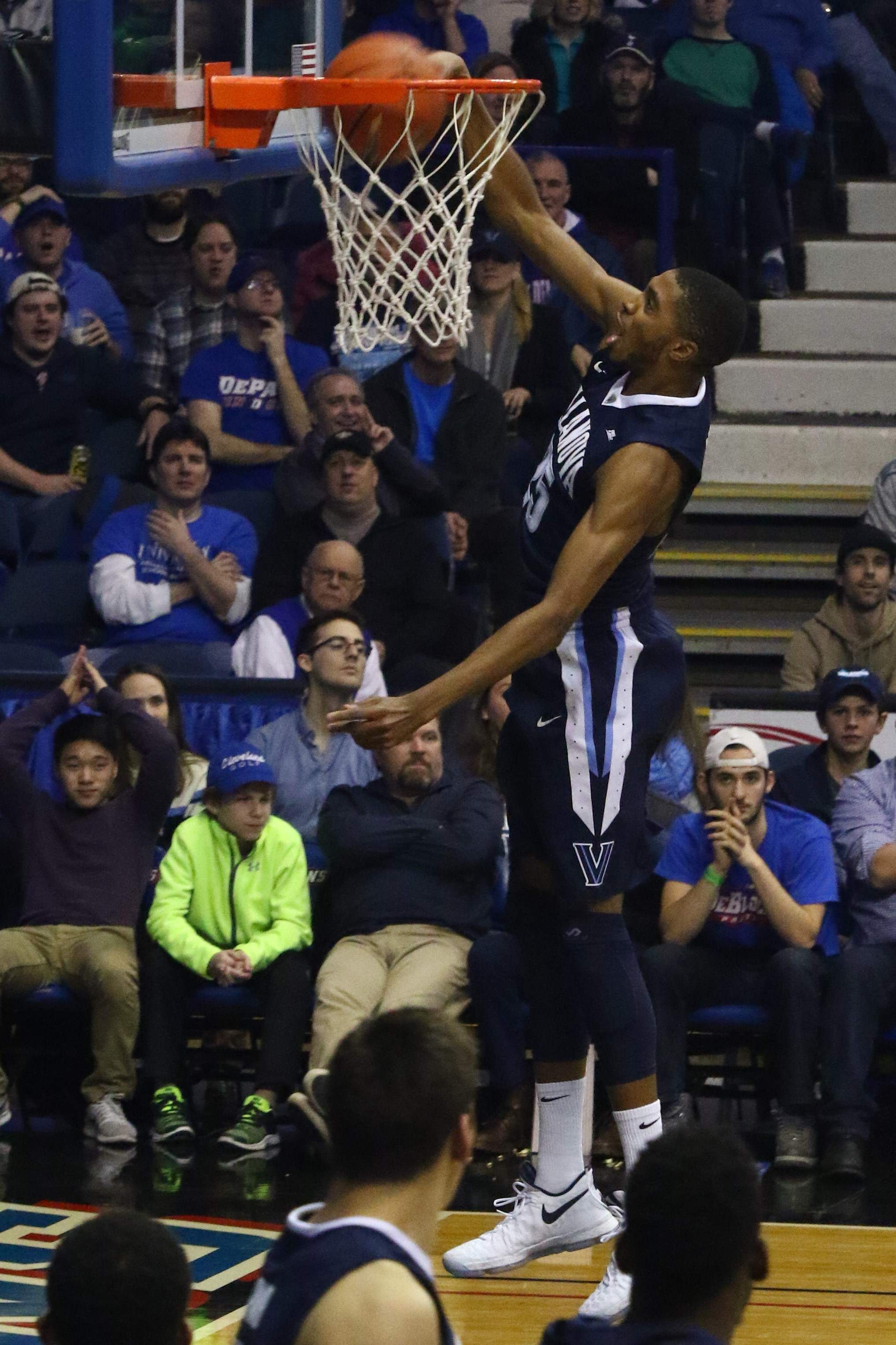 Mikal Bridges for the w:2016–17 Villanova Wildcats men's basketball team at Allstate Arena